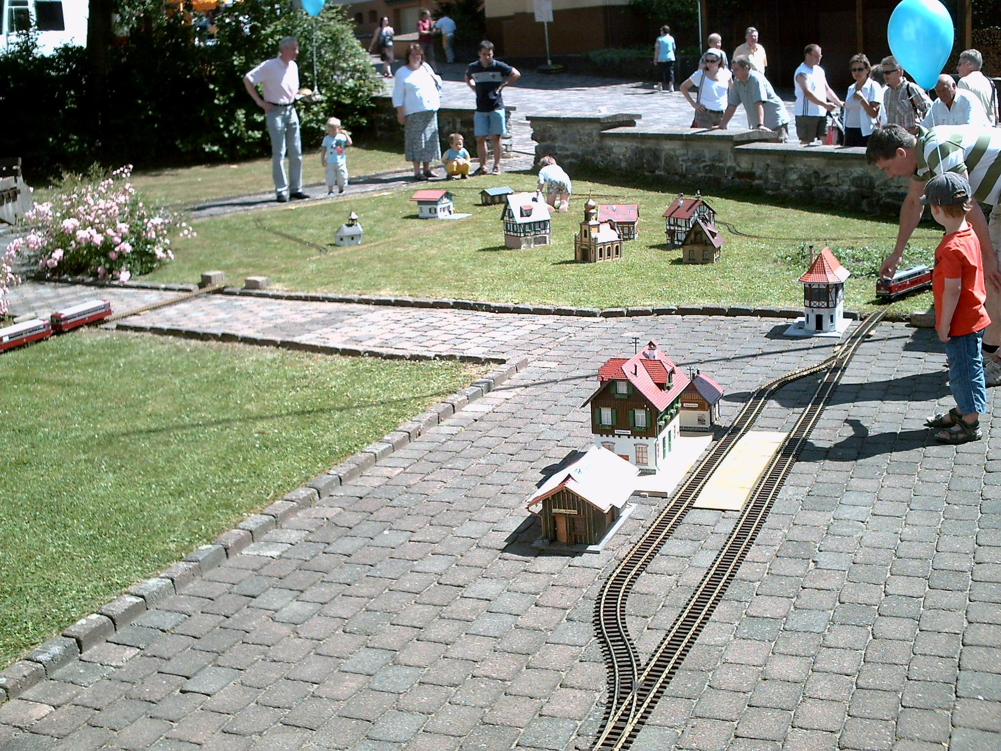 Altenbeken, Germany: Vivat Viadukt 2009: Model railway